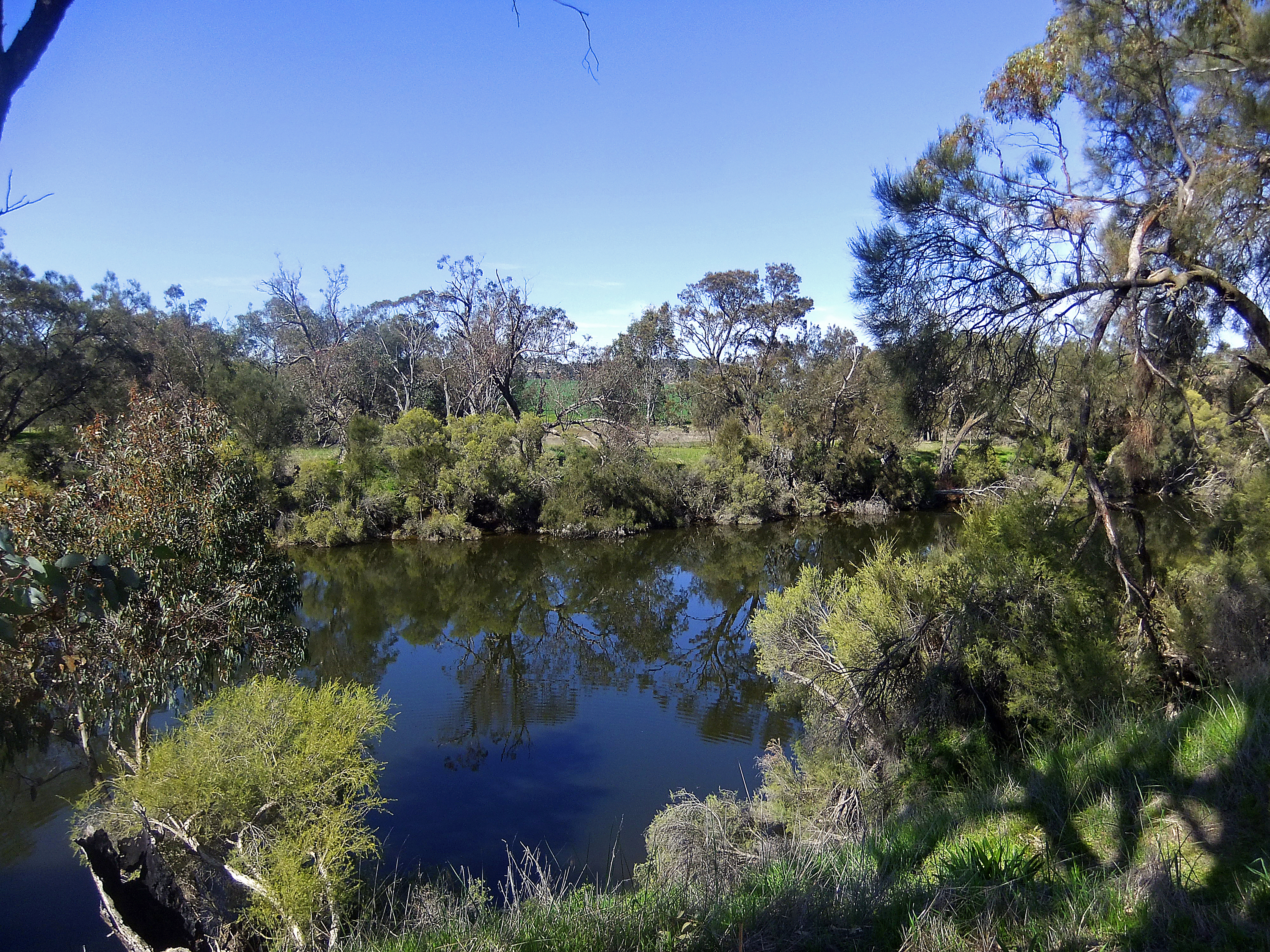 Gwambygine Pool, Avon River, Western Australia